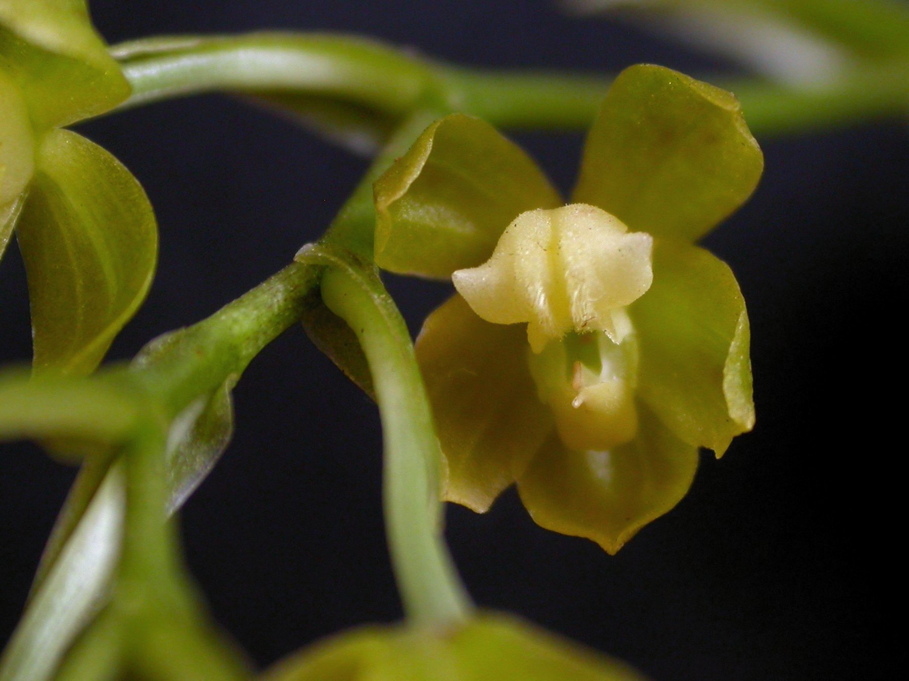 Rodrigueziella handroi